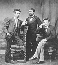 Károly Huber and his sons: Jenő and Károly